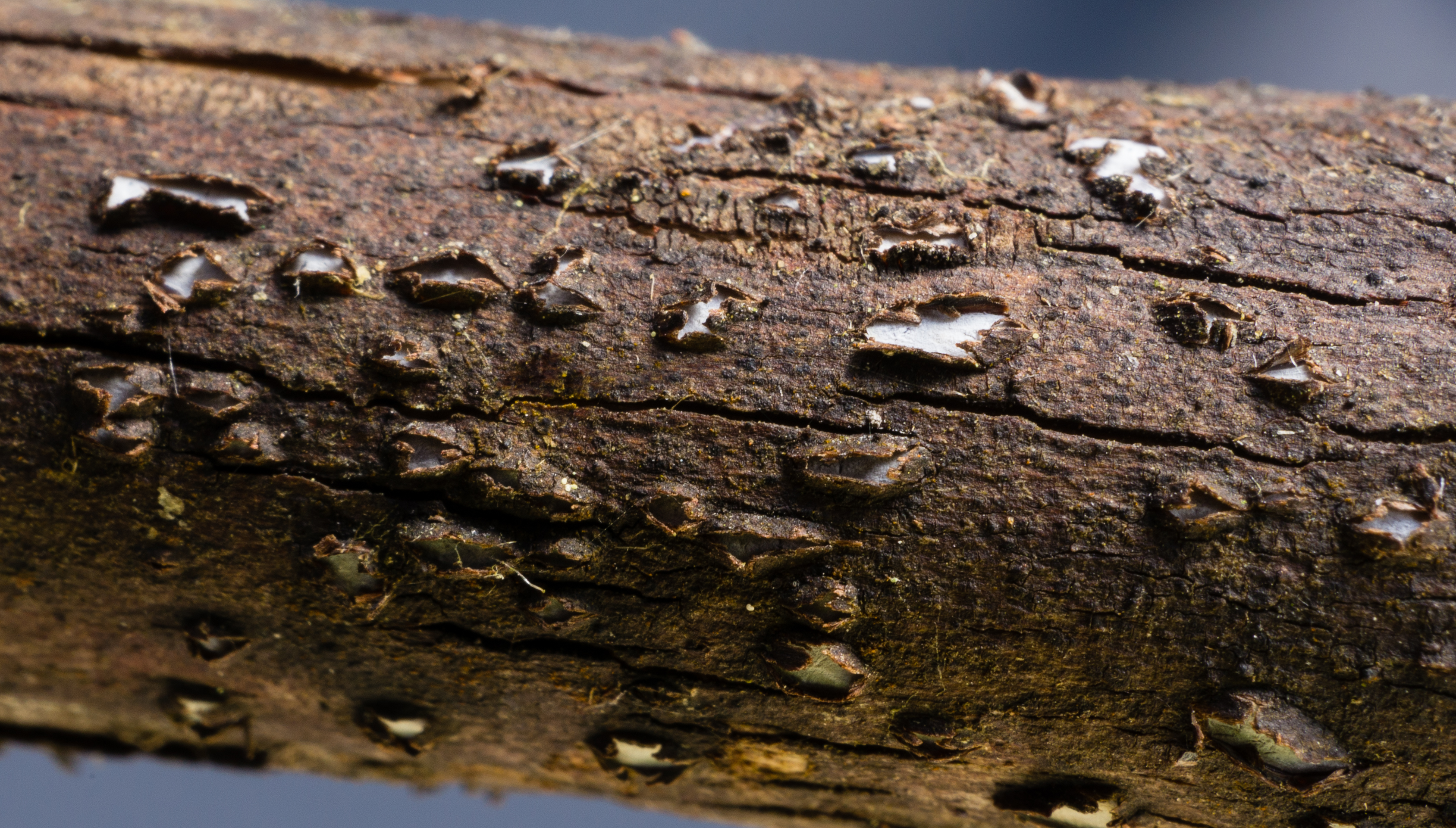 Fruit bodies of the ascomycete fungus Propolis versicolor Fr., growing on a decorticated madrone branch. Found in Kelley Point Park, Portland, Oregon, USA.